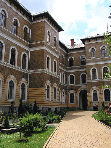 Babes-Bolyai University, Cluj-Napoca, Romania